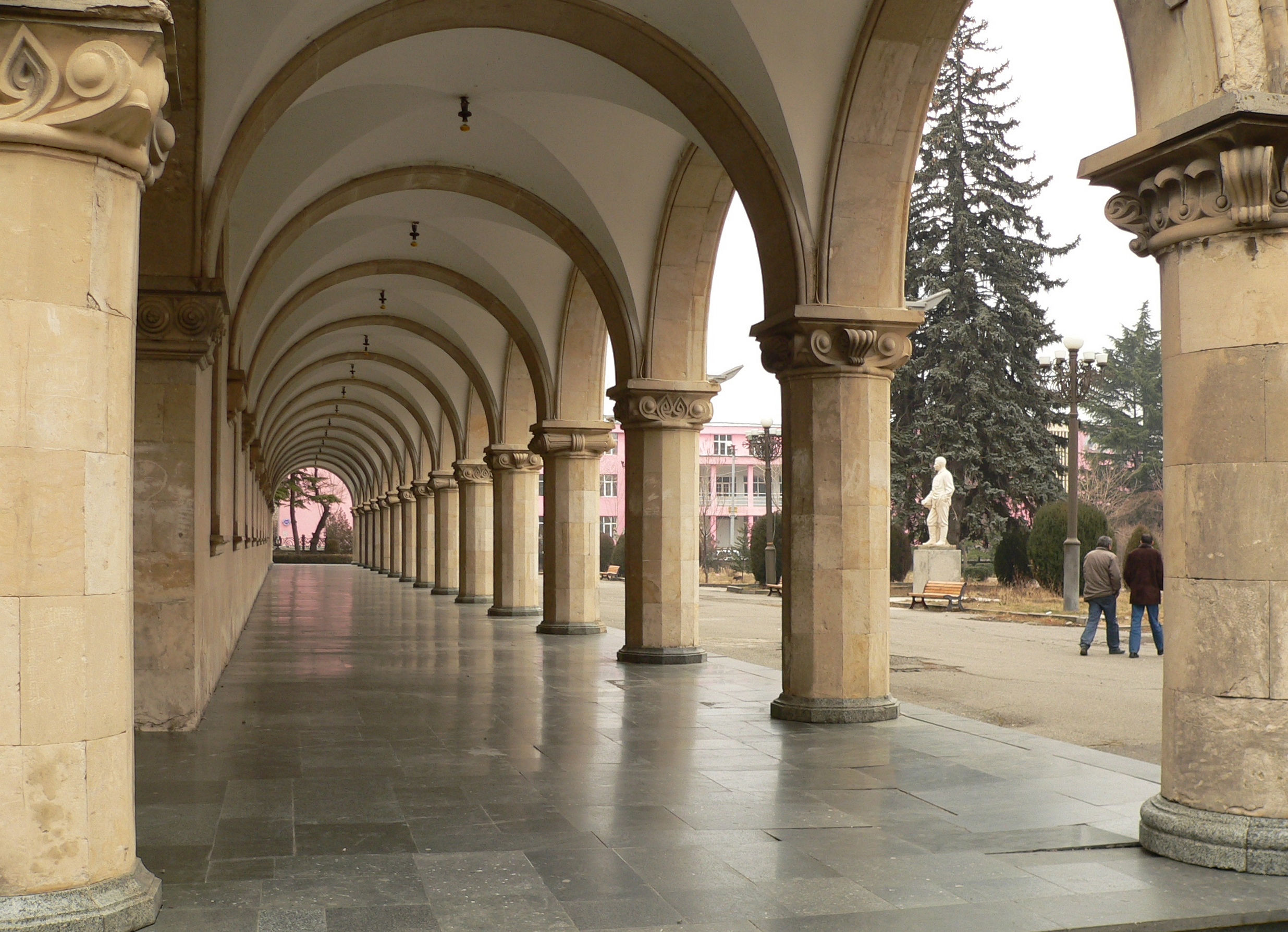 House-museum of I.V. Stalin. Gori, Georgia.